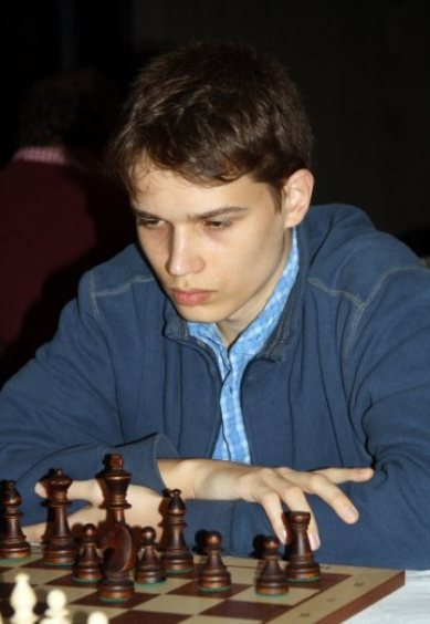 GM Anton Kovalyov at Figuera de Foz tournament.